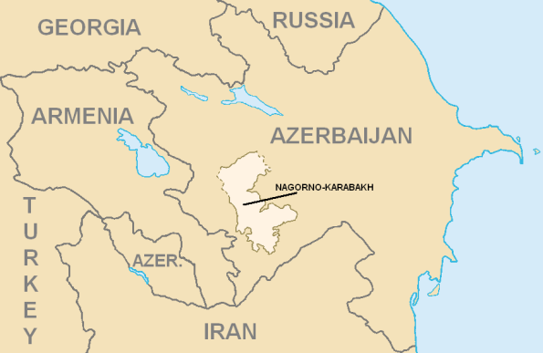 Location of Nagorno-Karabakh